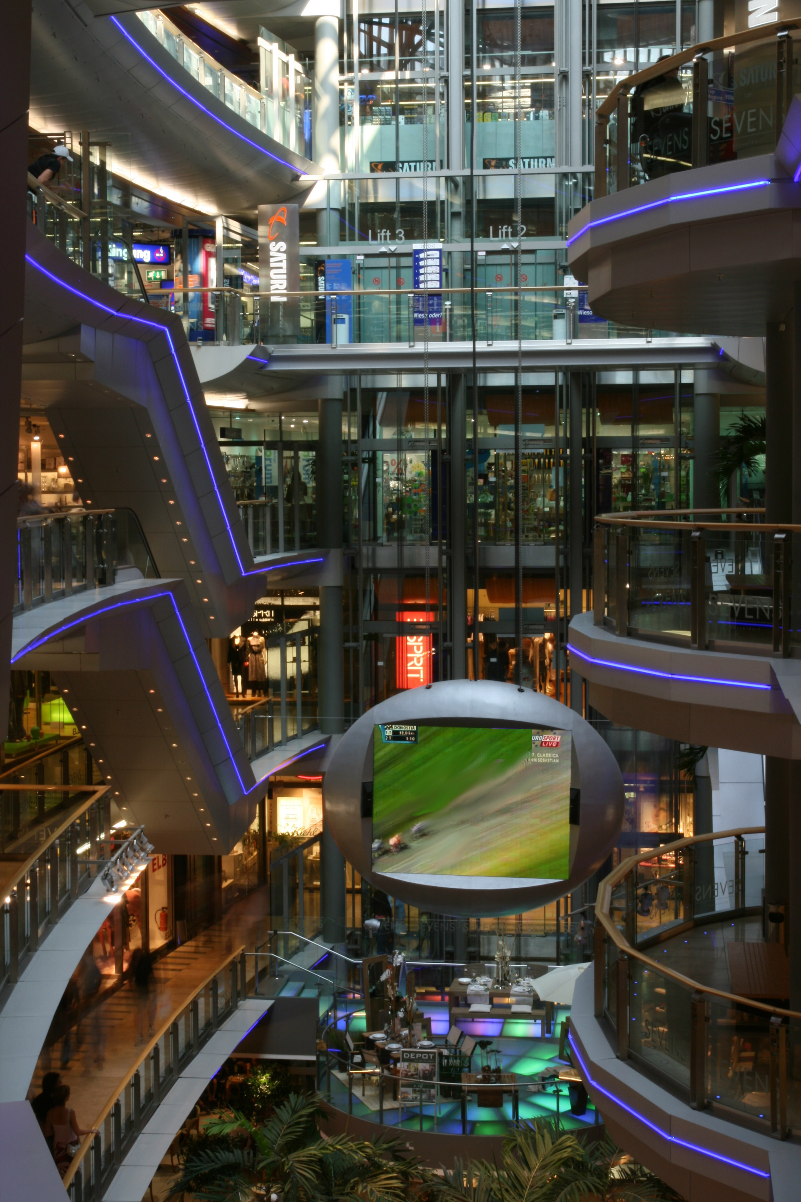 "Sevens" shopping mall in Düsseldorf, Germany